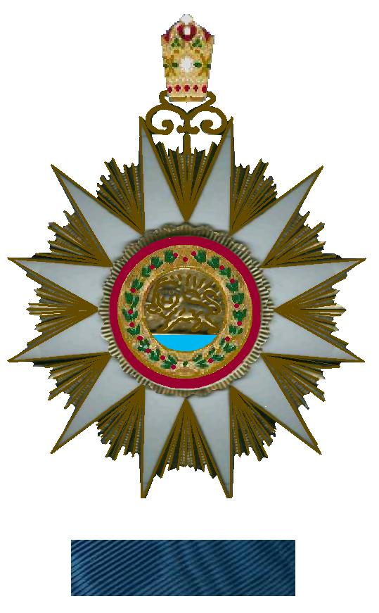 Jewel of the Orde van Moghadas Ghajar dynasty Persia